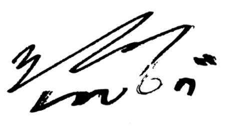 하성운 사인